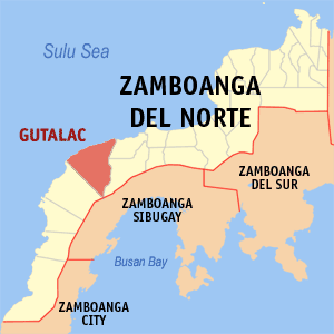 Map of the Zamboanga del Norte showing the location of Gutalac